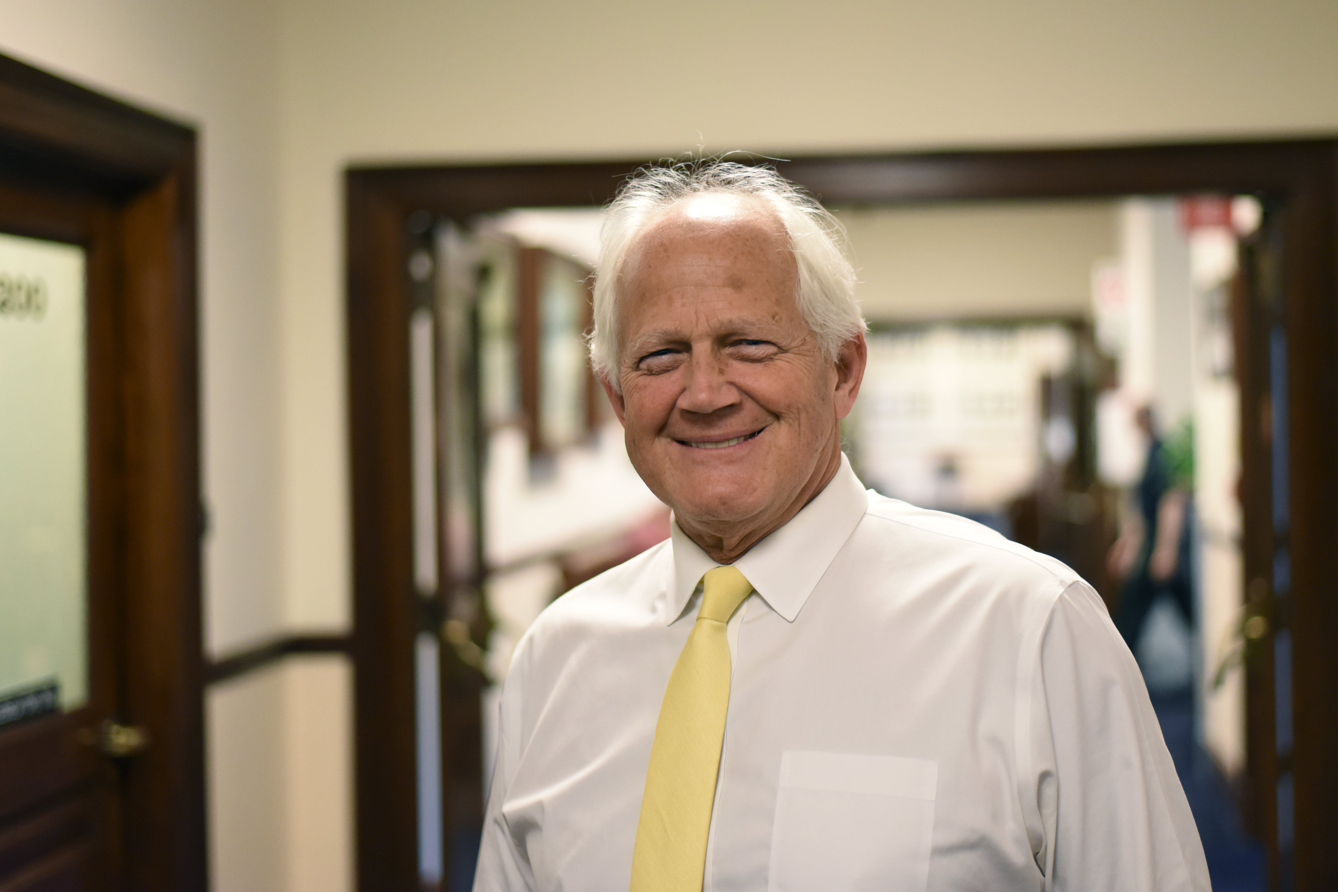 This photo is provided under a Creative Commons Attribution license. Please provide the following credit: "Photo used under Creative Commons license courtesy Paxson Woelber, The Alaska Landmine"